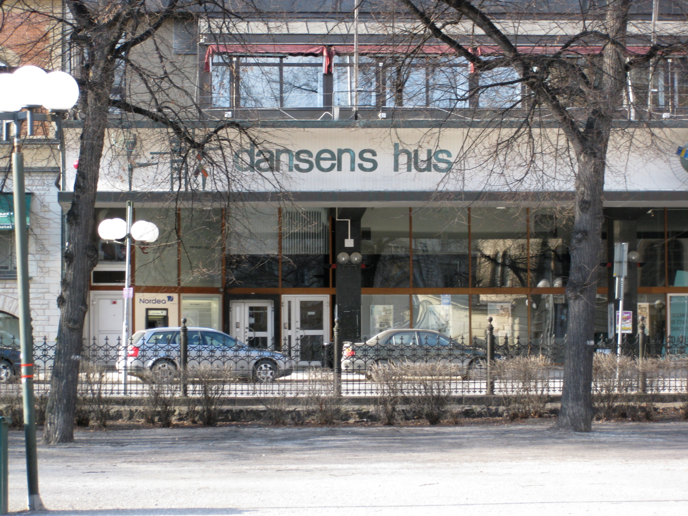 House of Dance, Stockholm, Sweden